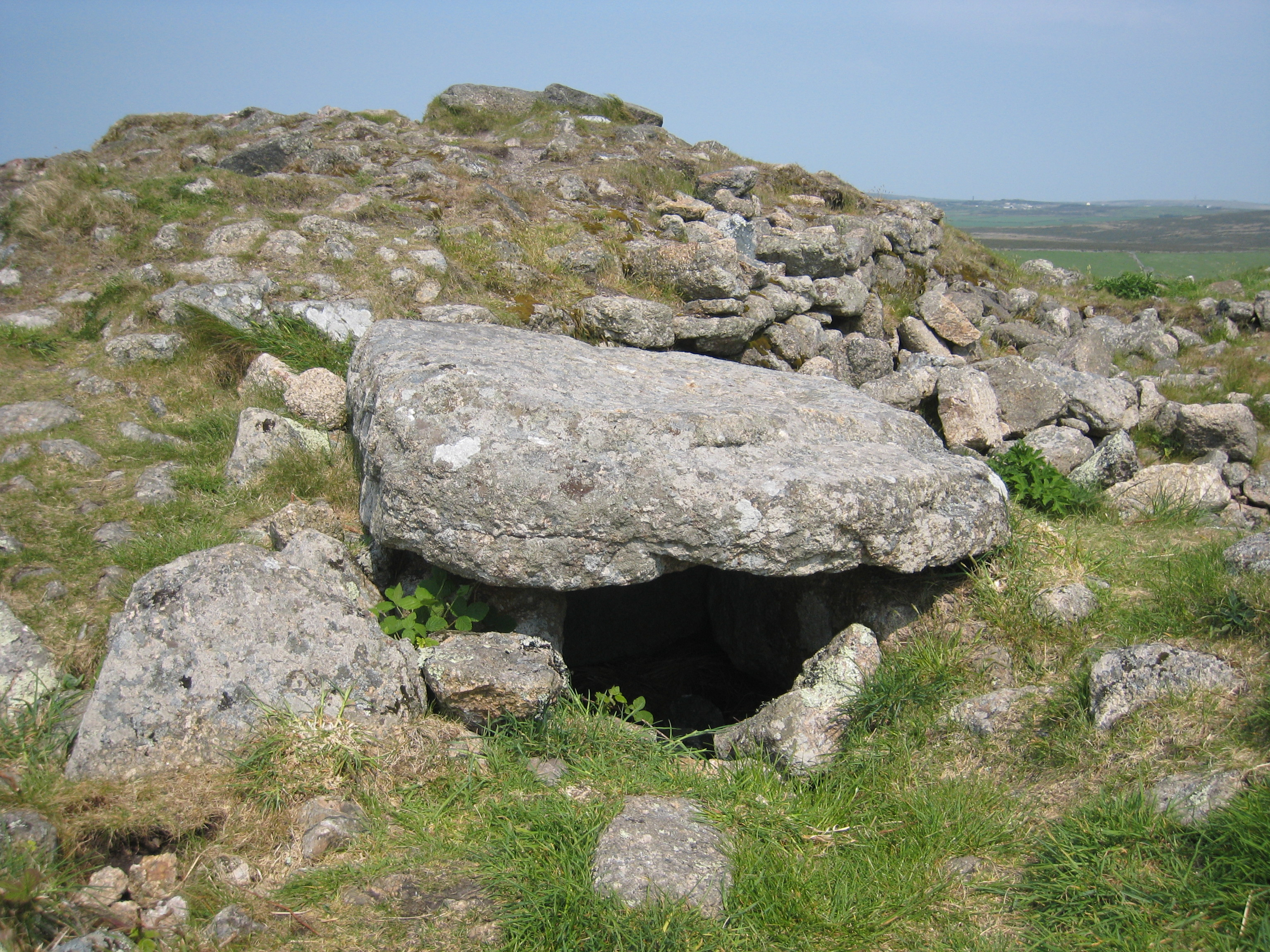 Chambered tomb on top of Chapel Carn Brea